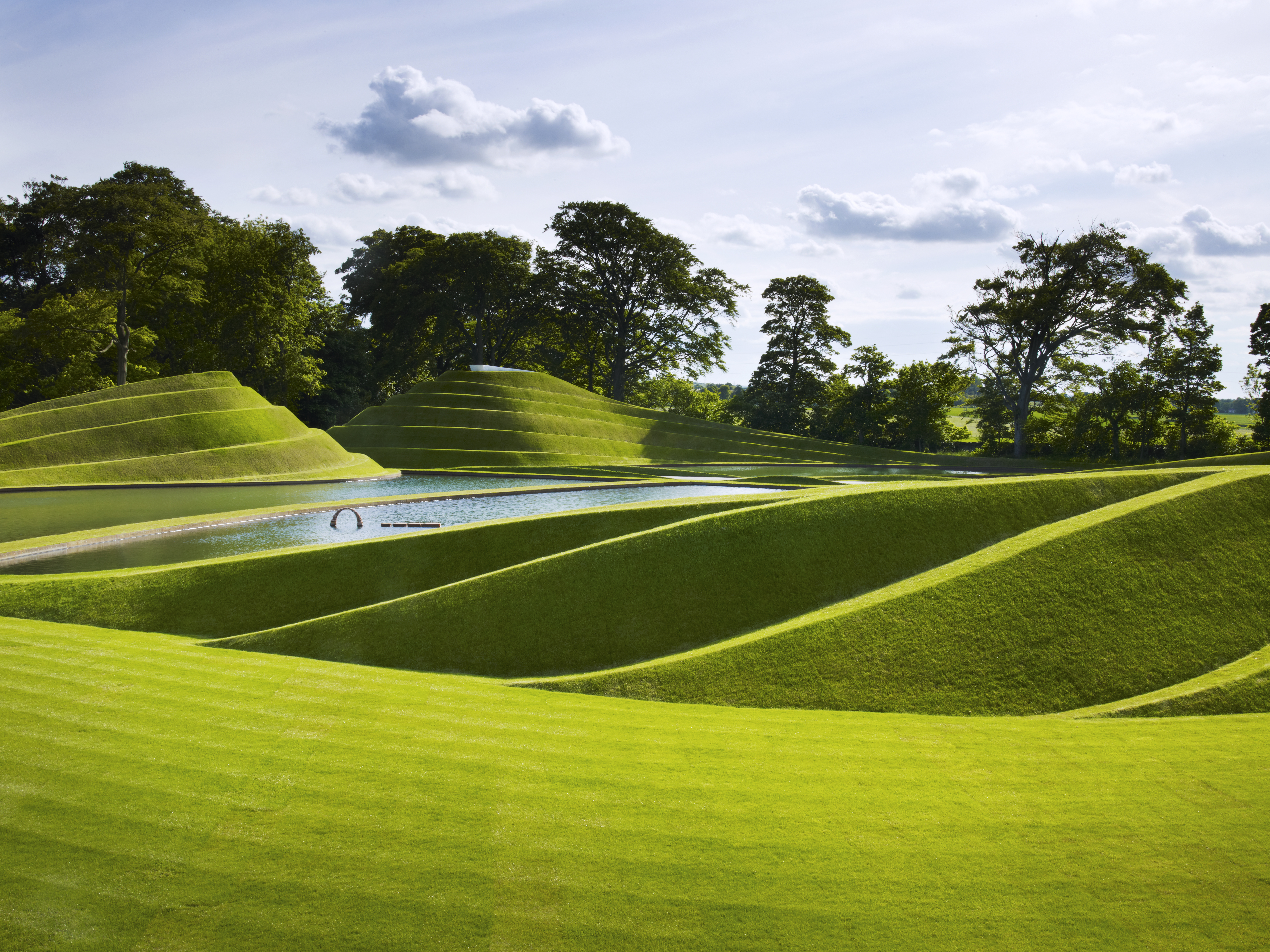 The Cells of Life by Charles Jencks at Jupiter Artland. Image by Allan Pollok-Morris, courtesy of Jupiter Artland.